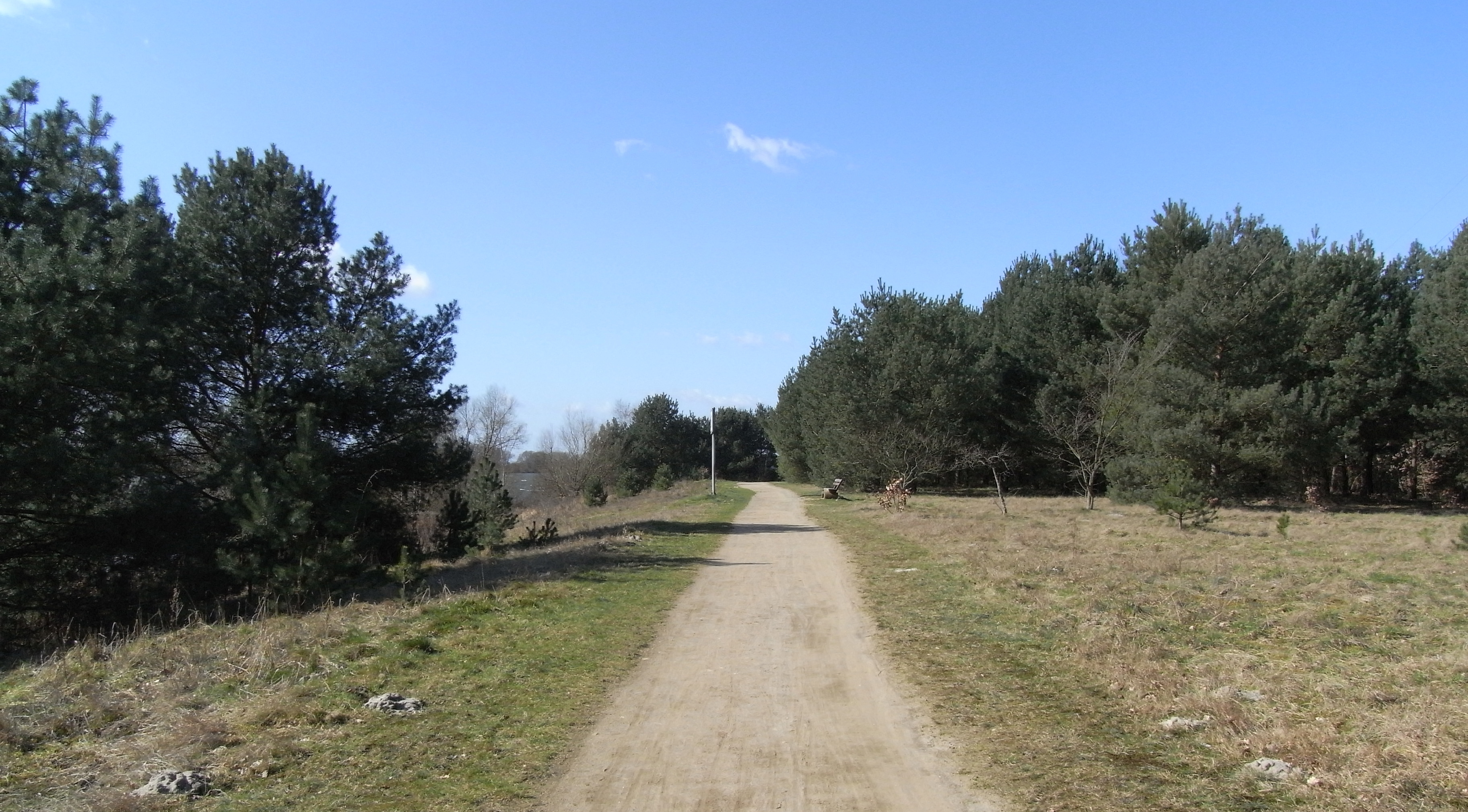 Trail along the Elbe river in Geesthacht, Schleswig-Holstein, Germany.